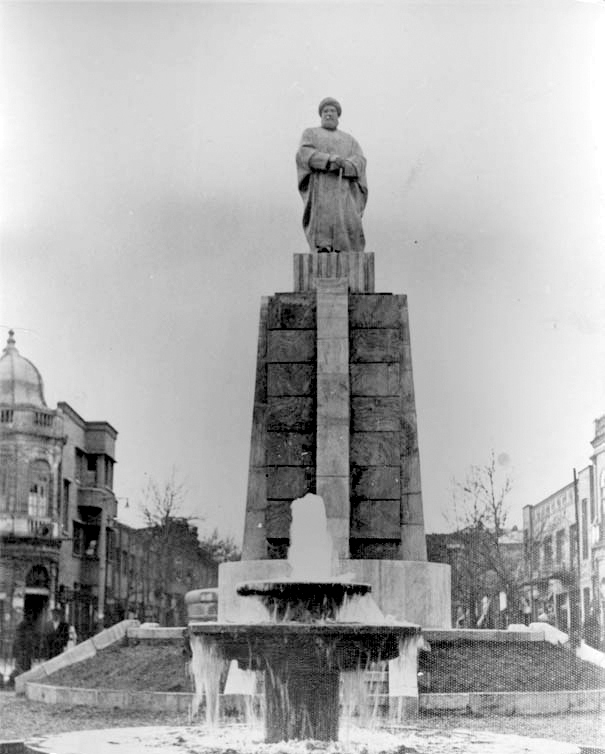 HassanAbad Square of Tehran and the Statue of Malek ol-Motekalemin, the Iranian constitutional activist, in 1957